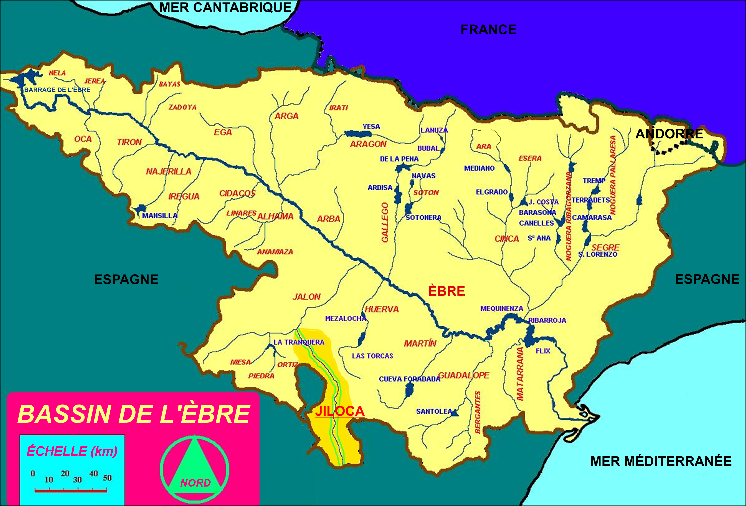 Watershed of the Jiloca river (Spain)